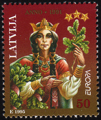 Postage stamp issued by Latvia 1993 depicting Spīdola.